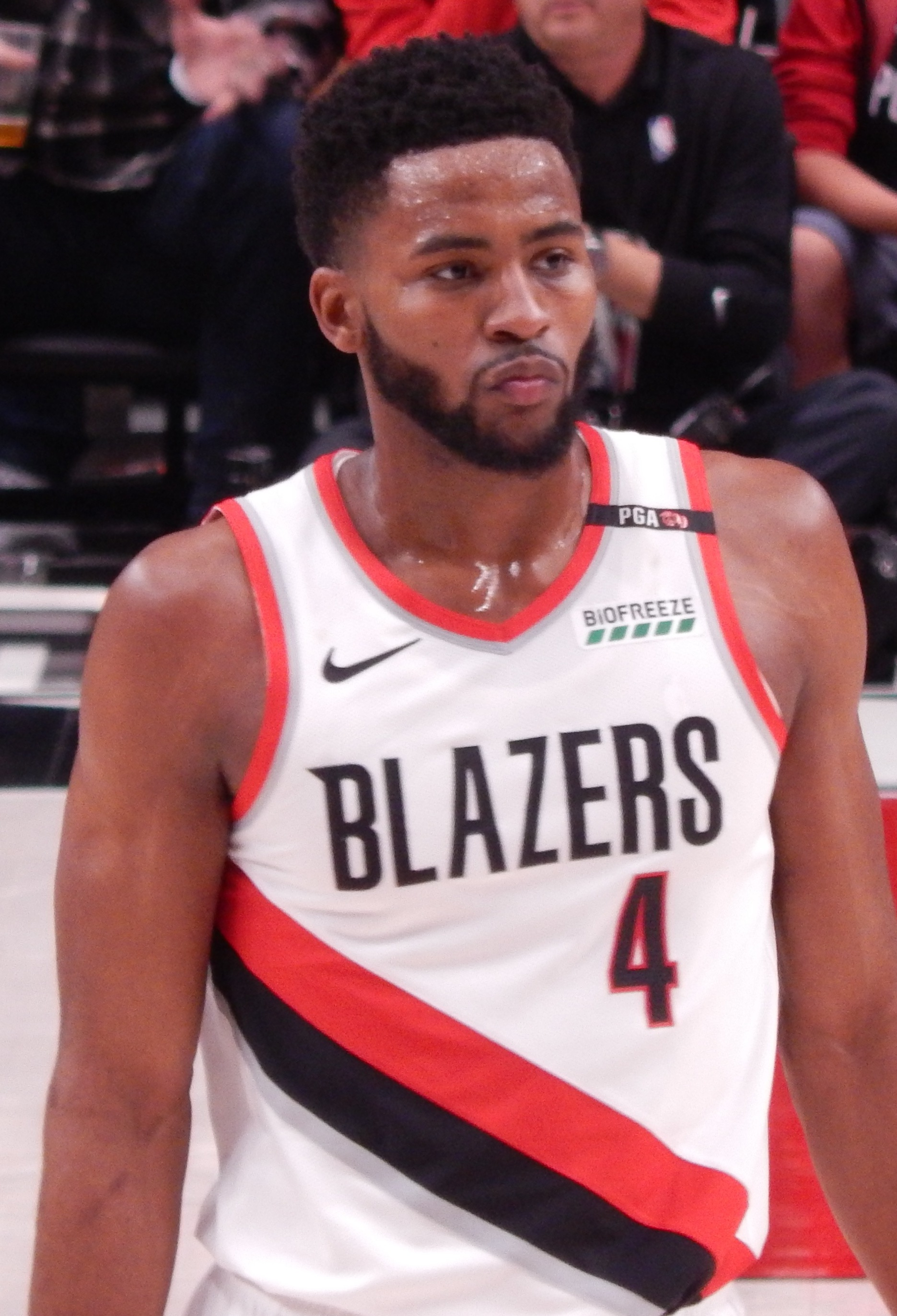 Maurice Harkless #4 of Portland Trail Blazers waits for play to resume in a game against the Golden State Warriors on May 18, 2019 at Moda Center in Portland, Oregon.